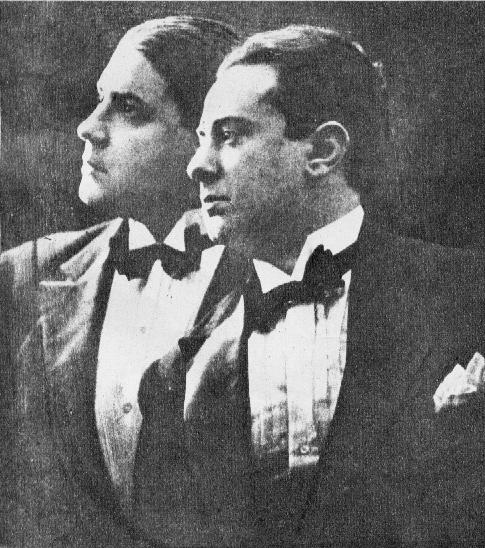 Carlos Gardel & José Razzano.